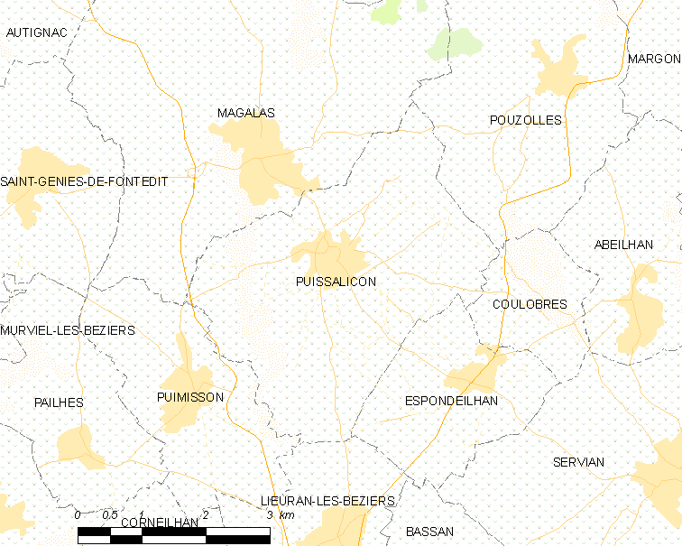 Map commune FR insee code 34224.png - Puissalicon